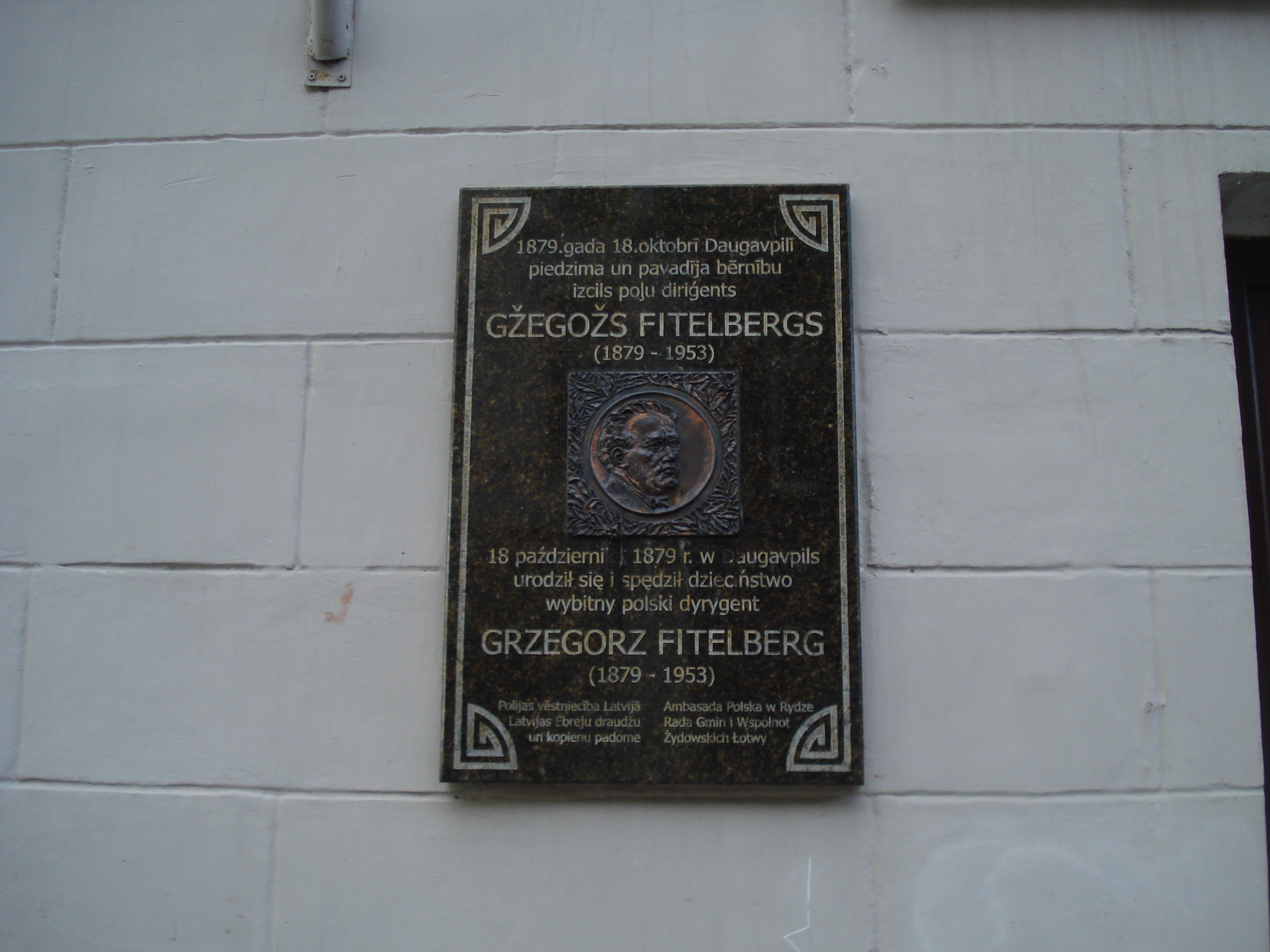 Memorial tablet on the house in Daugavpils where 18 October 1879 was born Grzegorz Fitelberg, a Polish conductor, violinist and composer. Mihoelsa iela 58